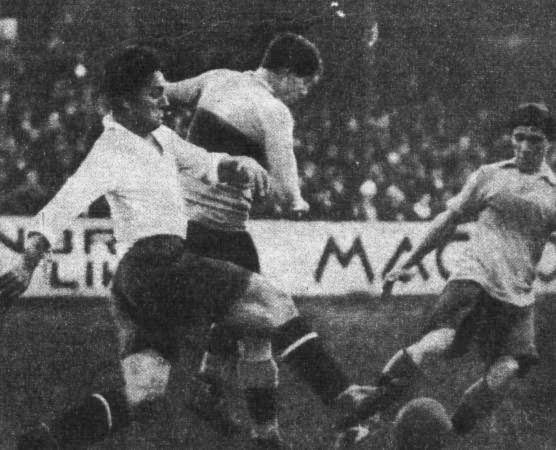 Boca Juniors playing a German team during club's tour on Europe. Boca won the match by 3-1.